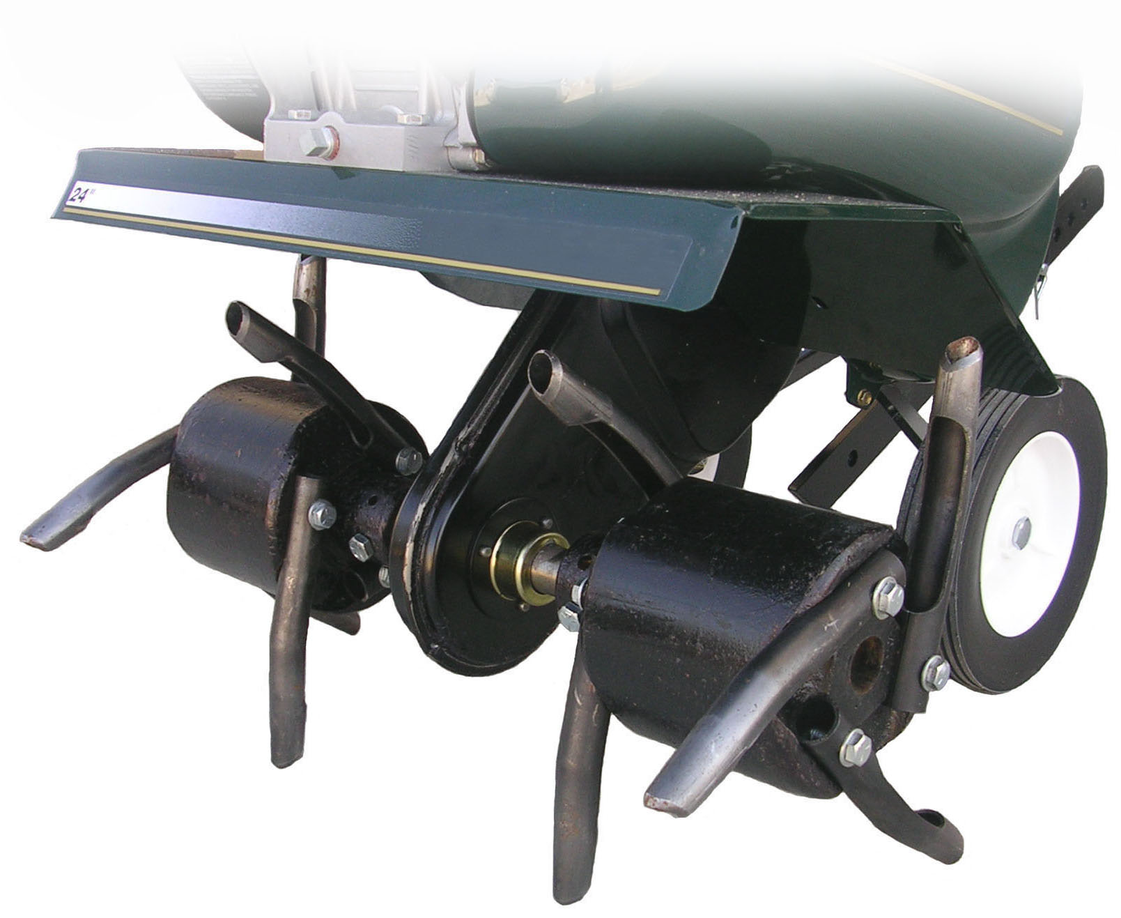 Core lawn aerator attachment on a conventional front-tine garden tiller. An attachment that converts many garden tillers into core aerators. This picture is also published at